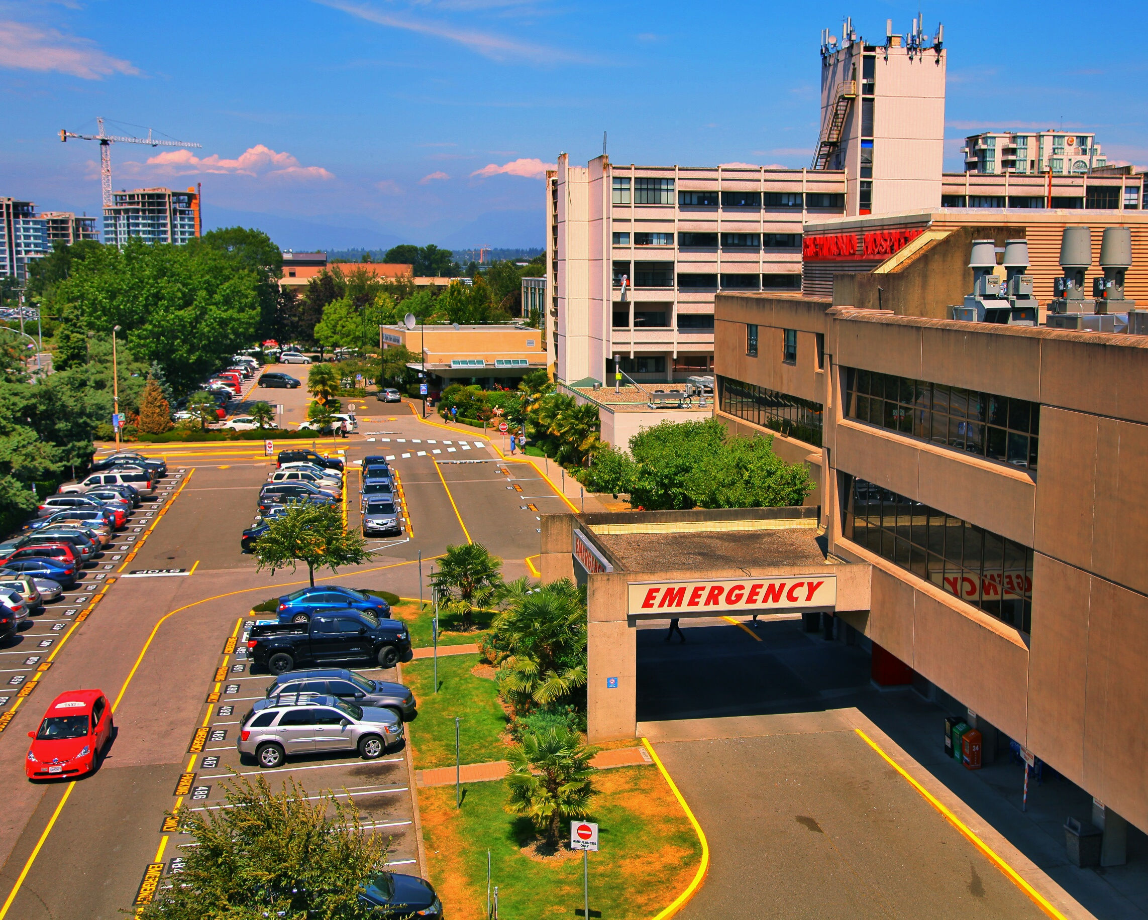 Richmond Hospital in Richmond, British Columbia, Canada.